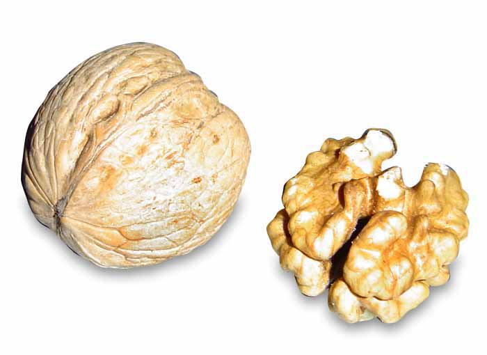 a walnut and a walnut core